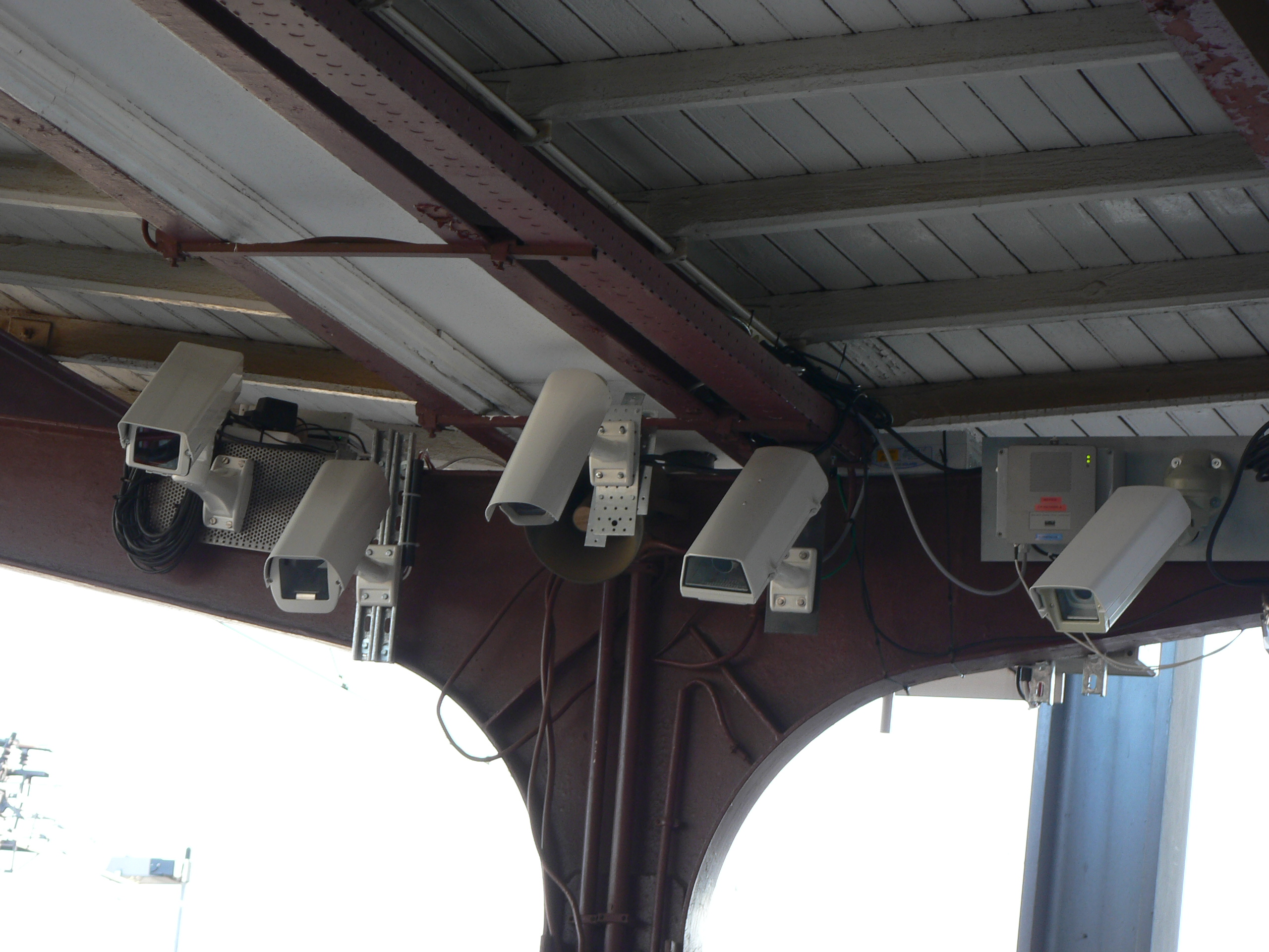 CCTV cameras railway station Aarschot (different types trial)